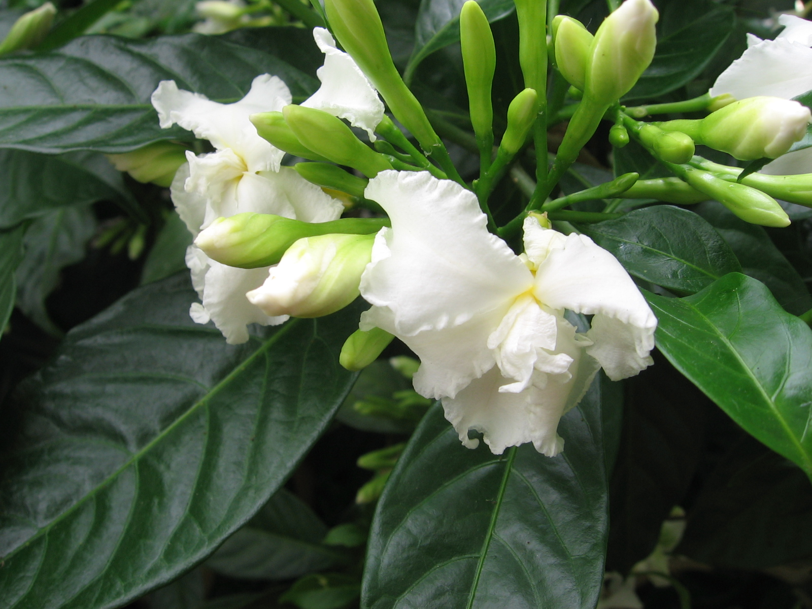 Crepe jasmine, Tabernaemontana divaricata, Jardin botanique de Montréal